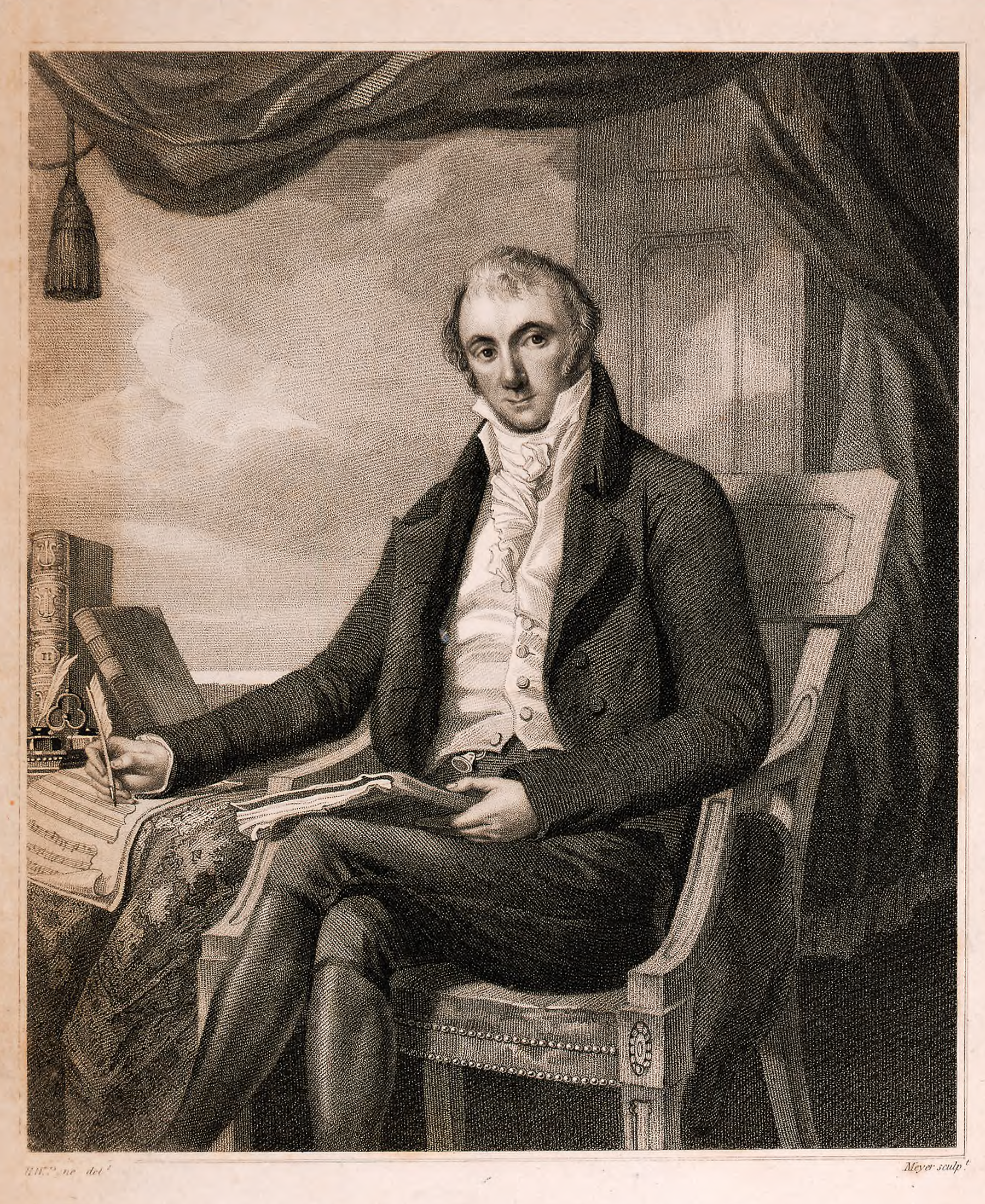 Depicted person: Joseph Woelfl